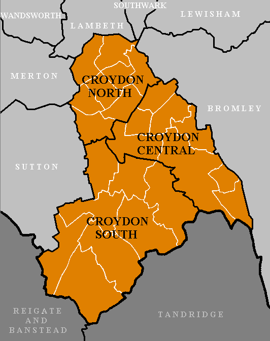 Map showing the 3 constituencies of the London Borough of Croydon created in MS paint